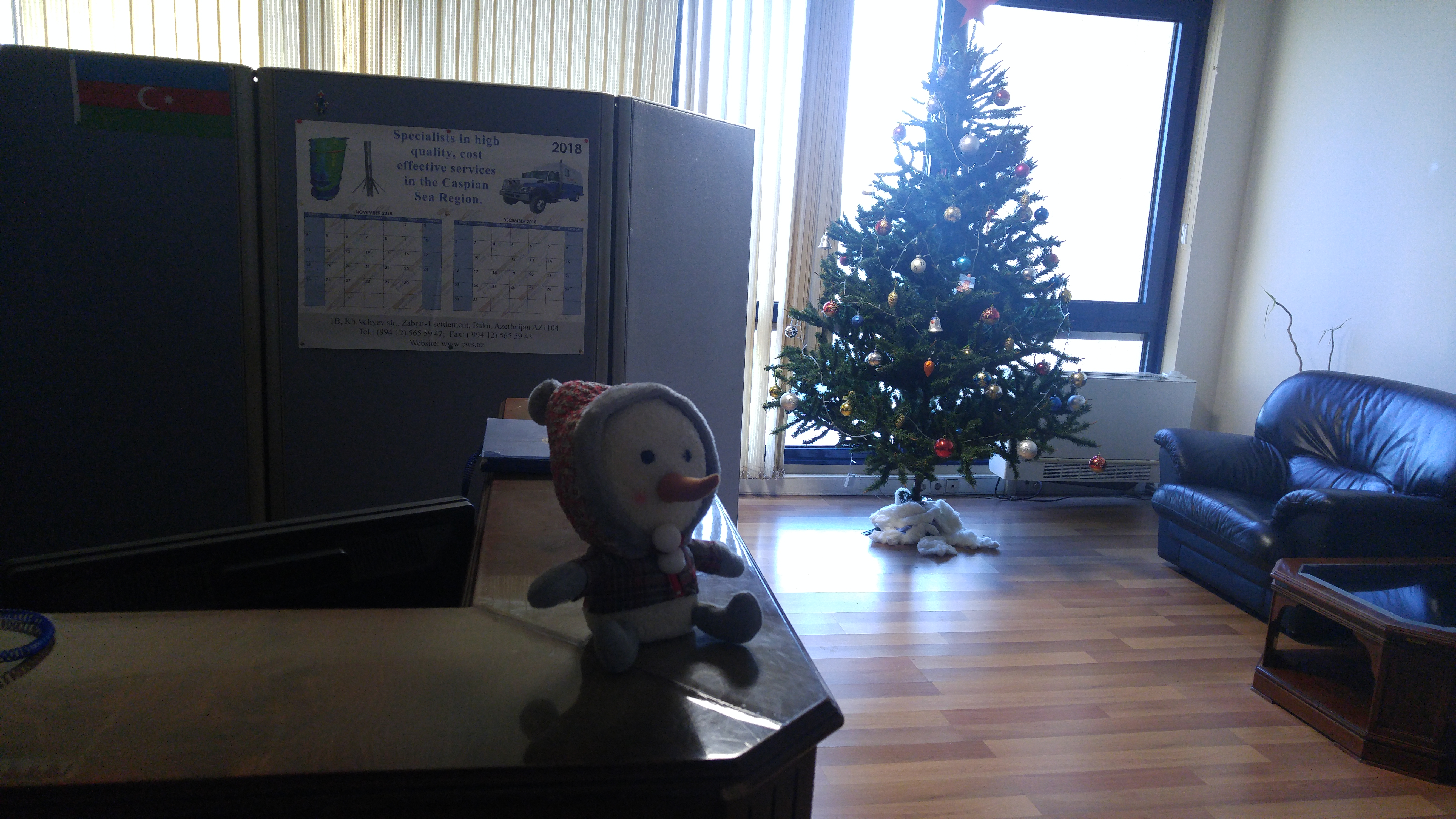 Karasu